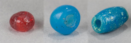 19th-century European trade beads, found in the Kijik Historic District, Lake Clark National Park and Preserve, Alaska.